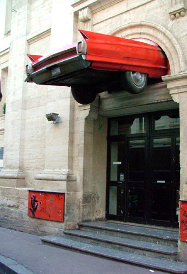 The Rockstore, french rock club in Montpellier.